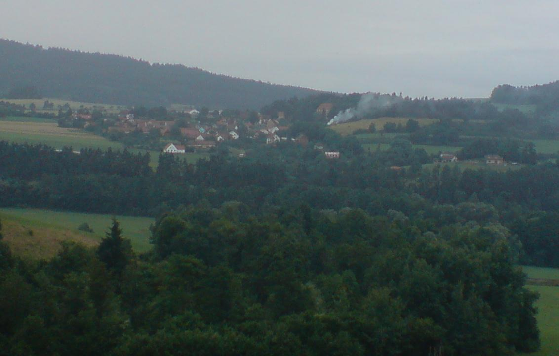 A view of Lcovice from the other side of the valley